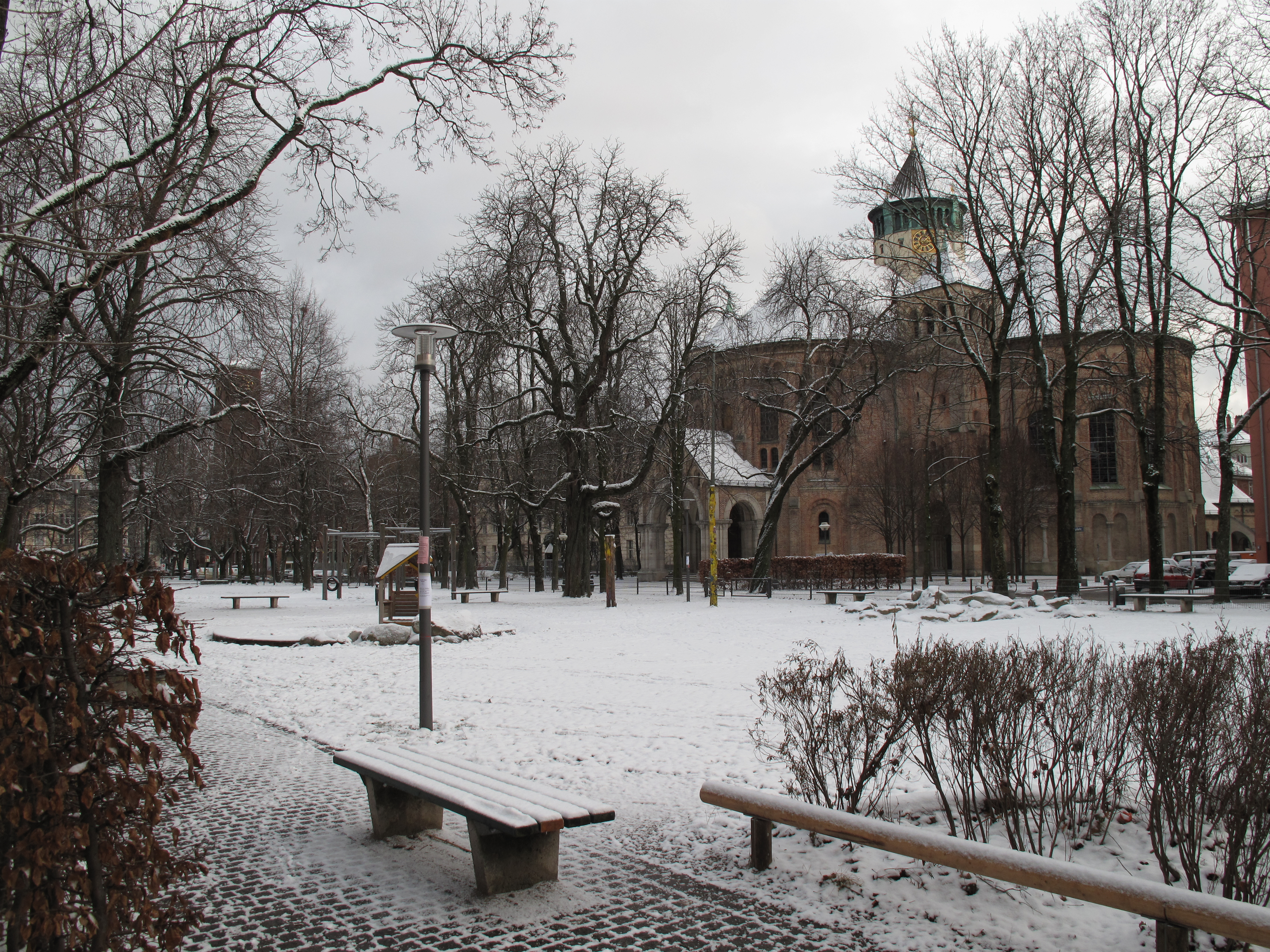 The Gollierplatz with St. Rupert church in Munich (district: Schwanthalerhöhe - also called: Westend).